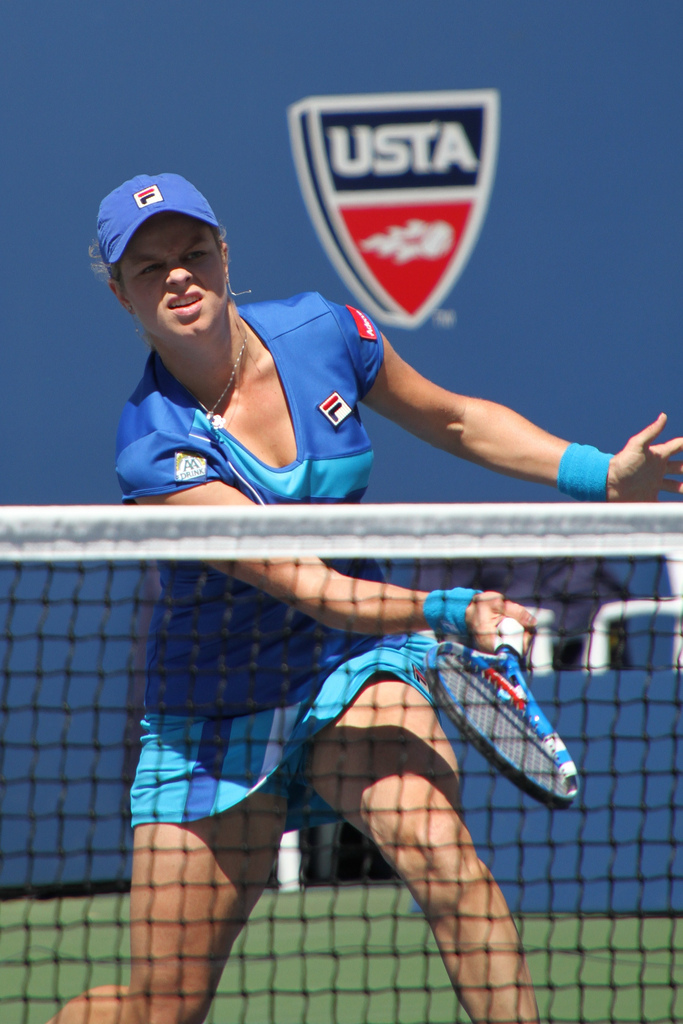 Clijsters playing a volley in the first round of the 2010 USO.